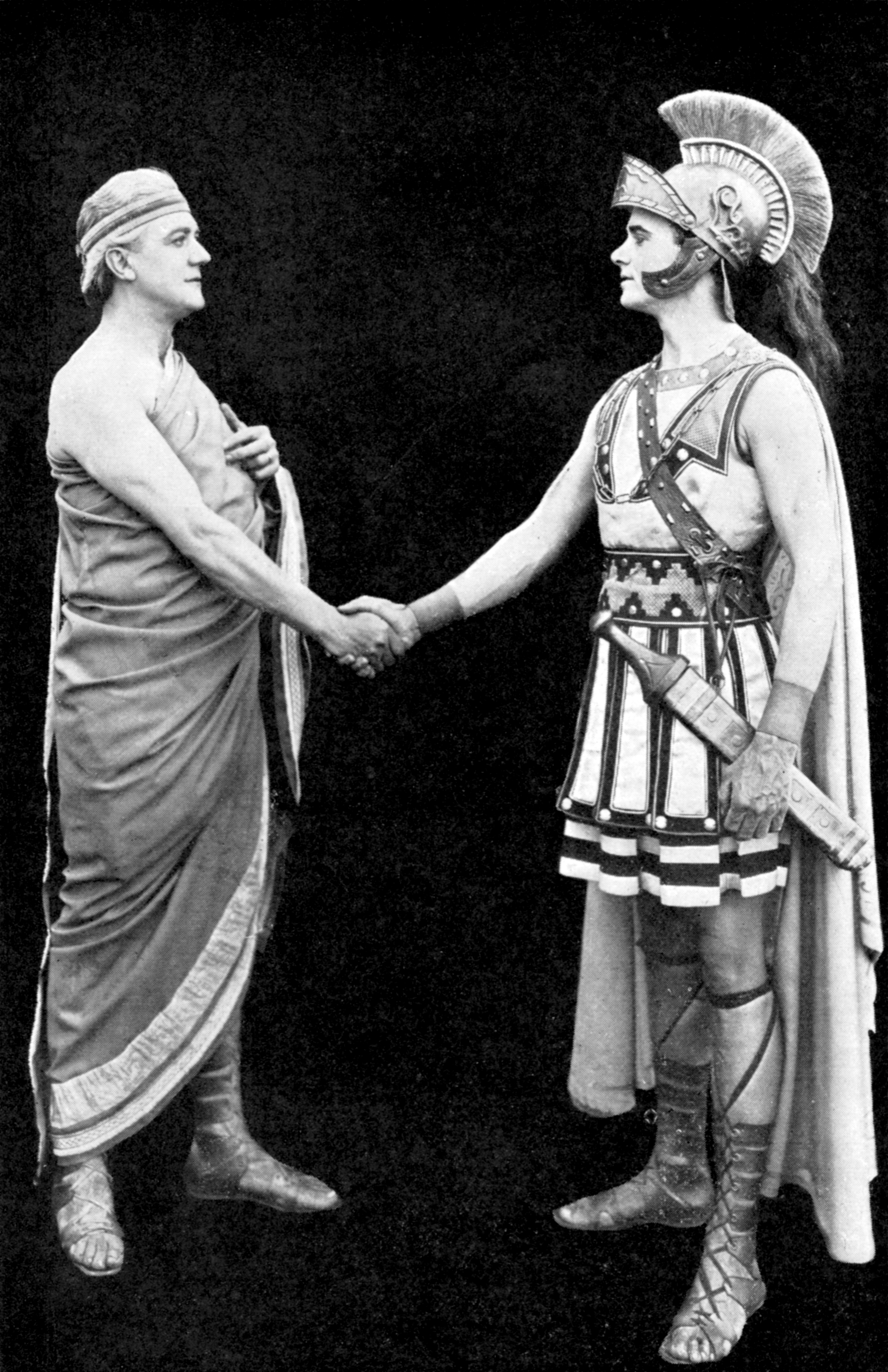 Still from the American film Damon and Pythias (1914) with William Worthington and Herbert Rawlinson, from the front piece to the 1915 novel.